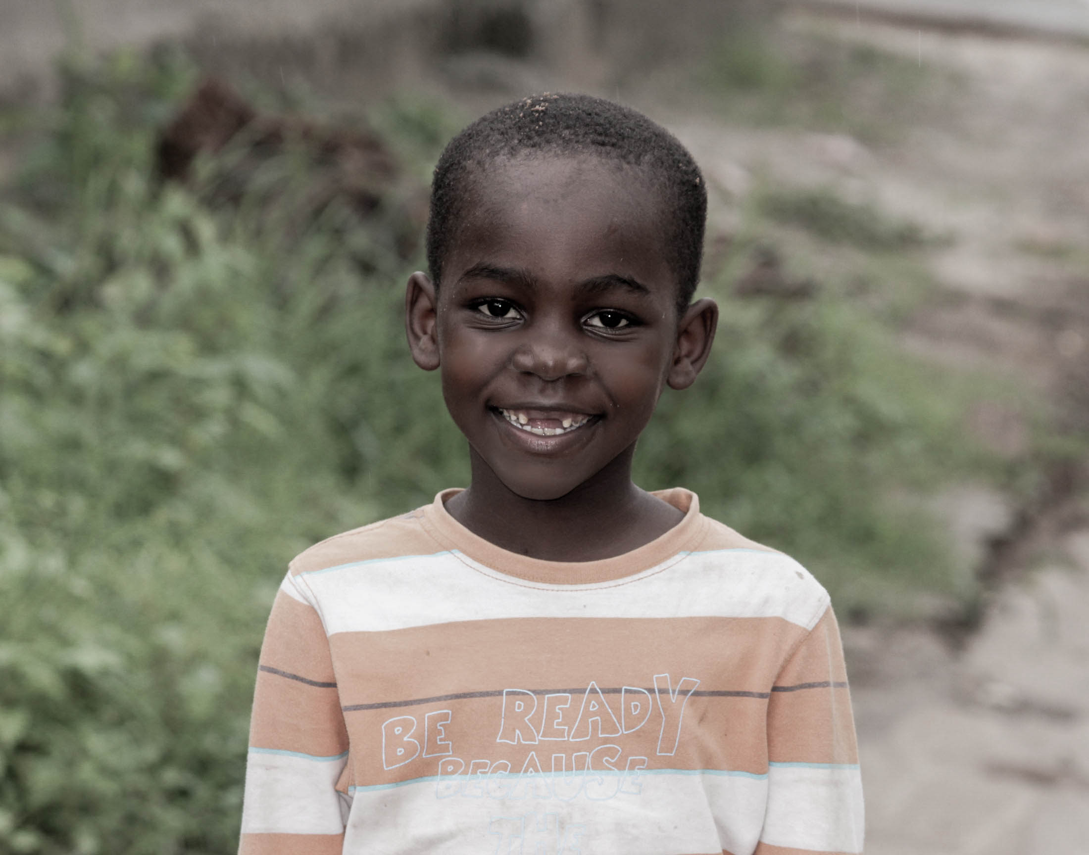 This is an image of food from Tanzania